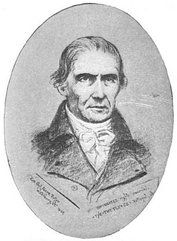 Ezra Butler (Vermont Governor). Reconstructed likeness created from portraits and photos of descendants and written physical description of subject.